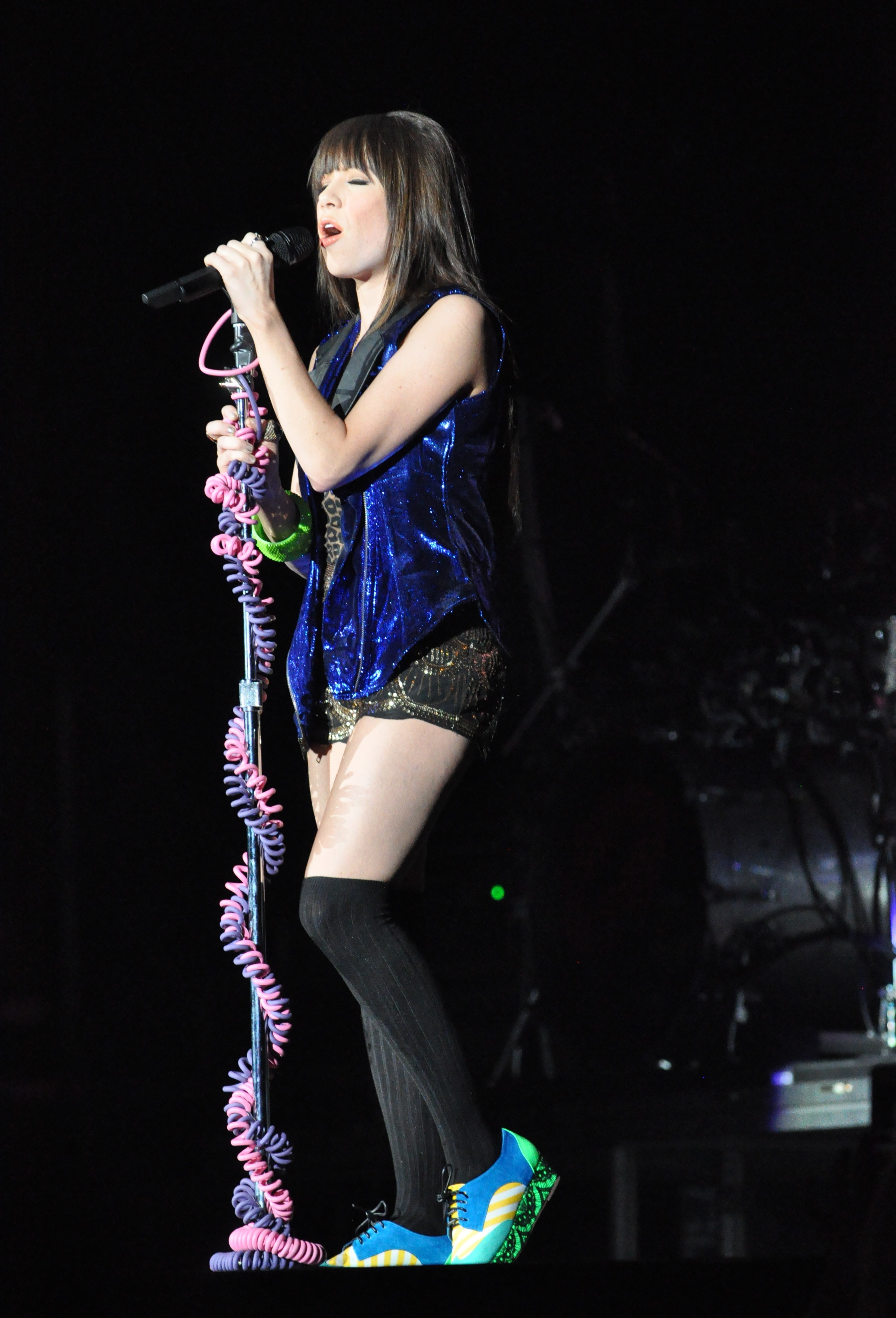 Carly Rae Jepson-DSC_0033-10.20.12